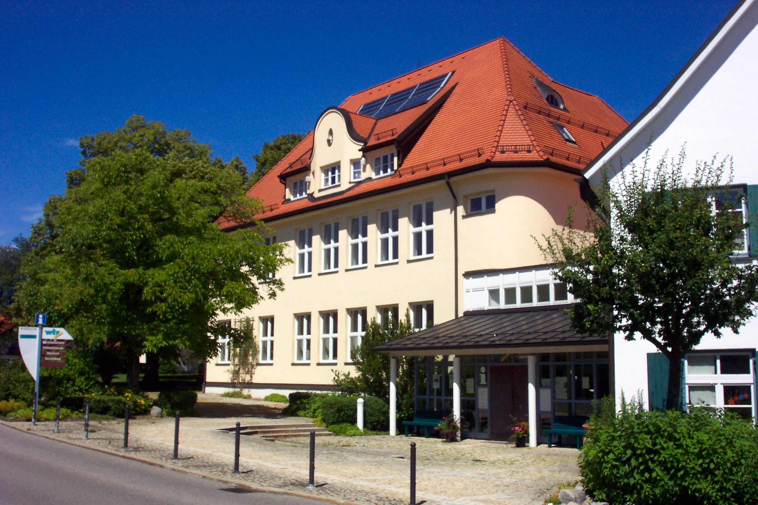 the Wiggensbacher Informationszentrum (WIZ) - Information Centre of Wiggensbach, the former school